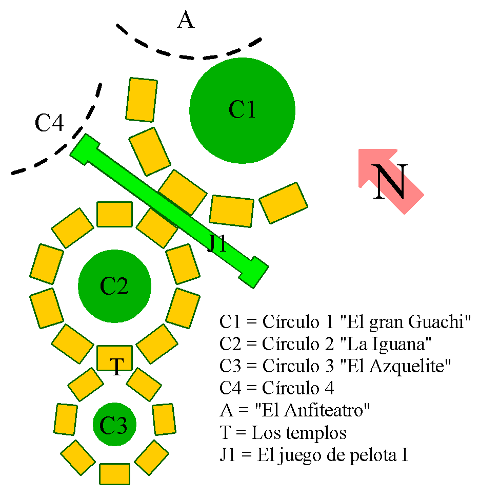 Esquema simplificado de la ubicación de las edificaciones en la zona arqueológica Guachimontones (no a escala).